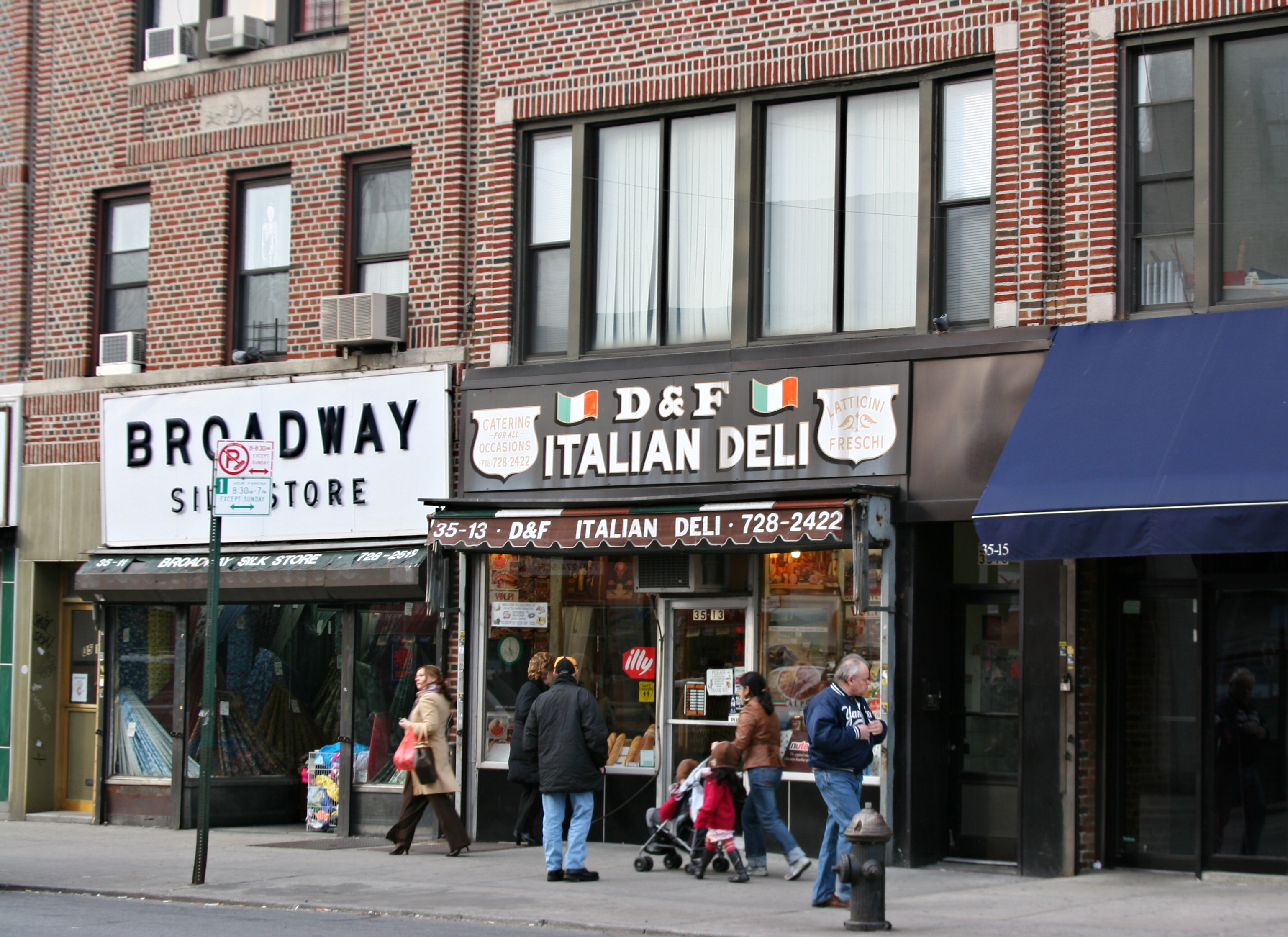 Italian deli and shops in Astoria, Queens, NYC. Photo by User:Aude, taken on March 26, 2007.